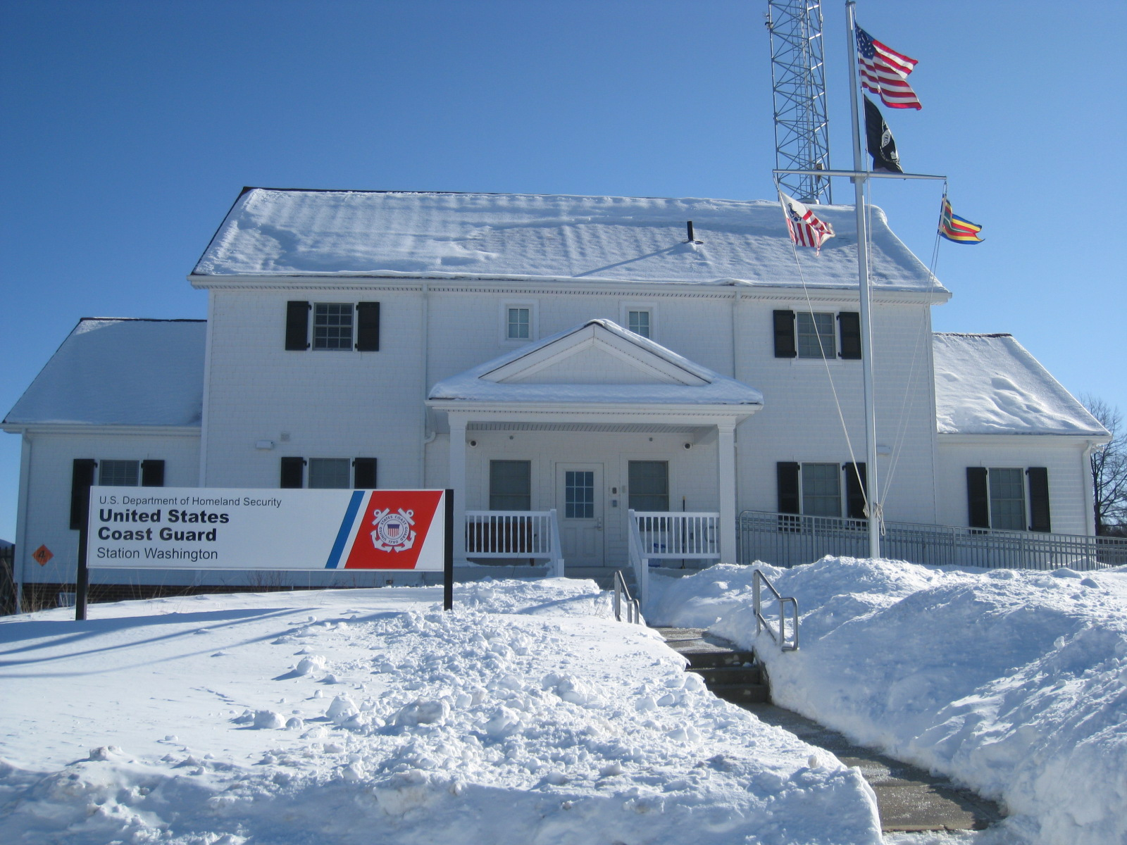 United States Coast Guard Station Washington, Building 91, Joint Base Anacostia-Bolling.